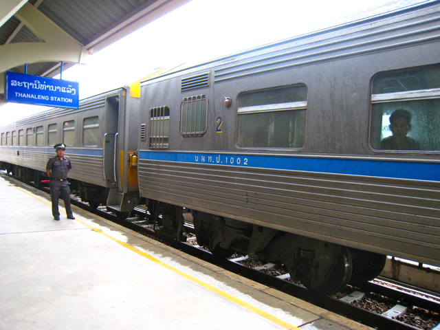 Train at Thanaleng Train Station.